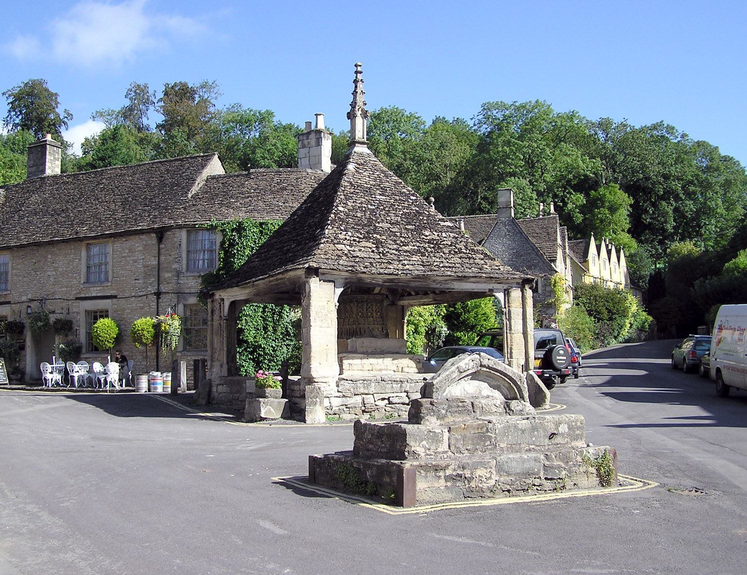 The fourteenth-century Market Cross, erected when the privilege to hold a weekly market was granted to Castle Combe. The cross is situated where the three principal streets converge. The stonework in the foreground, sometimes called the Buttercross, was for horseriders to mount and dismount. Photographed by Adrian Pingstone in August 2004 and released to the public domain.